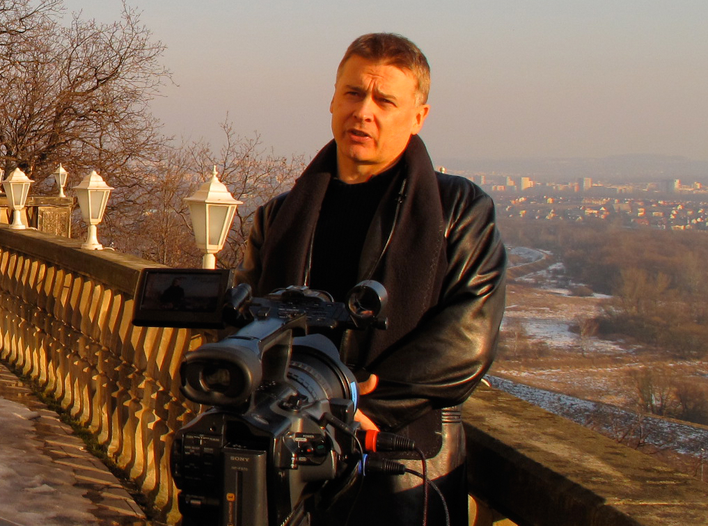 Peter Swirski interviewed for European TV 2009, Cracow, Poland